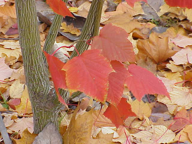 Species: Acer capillipes Family: Aceraceae Image No. 2